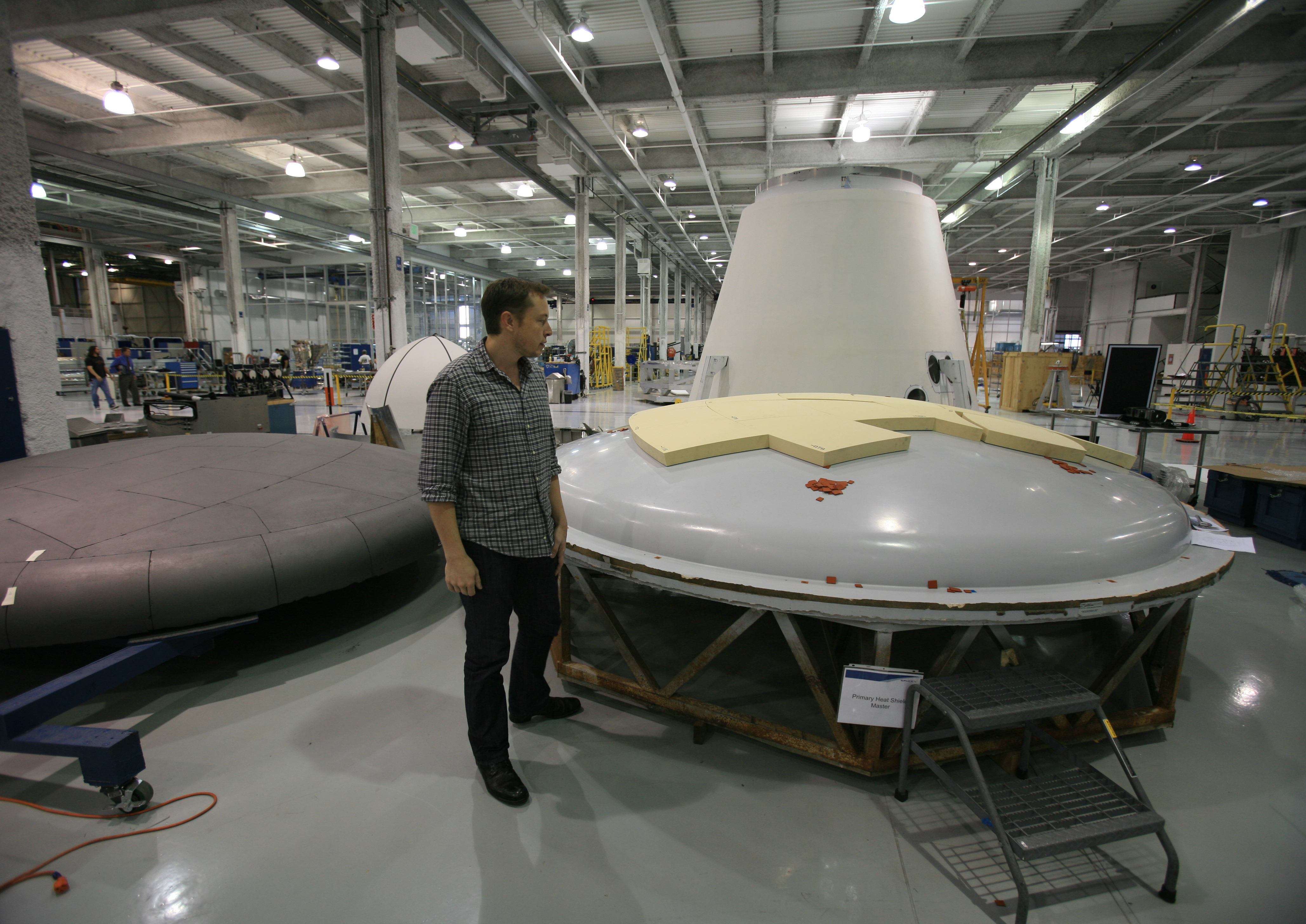 Elon Musk inspects the heat shield assembly. The carbon phenolic tiles on the left do the heavy work of reentry. They are quite a bit larger than the ones I saw on Atlantis